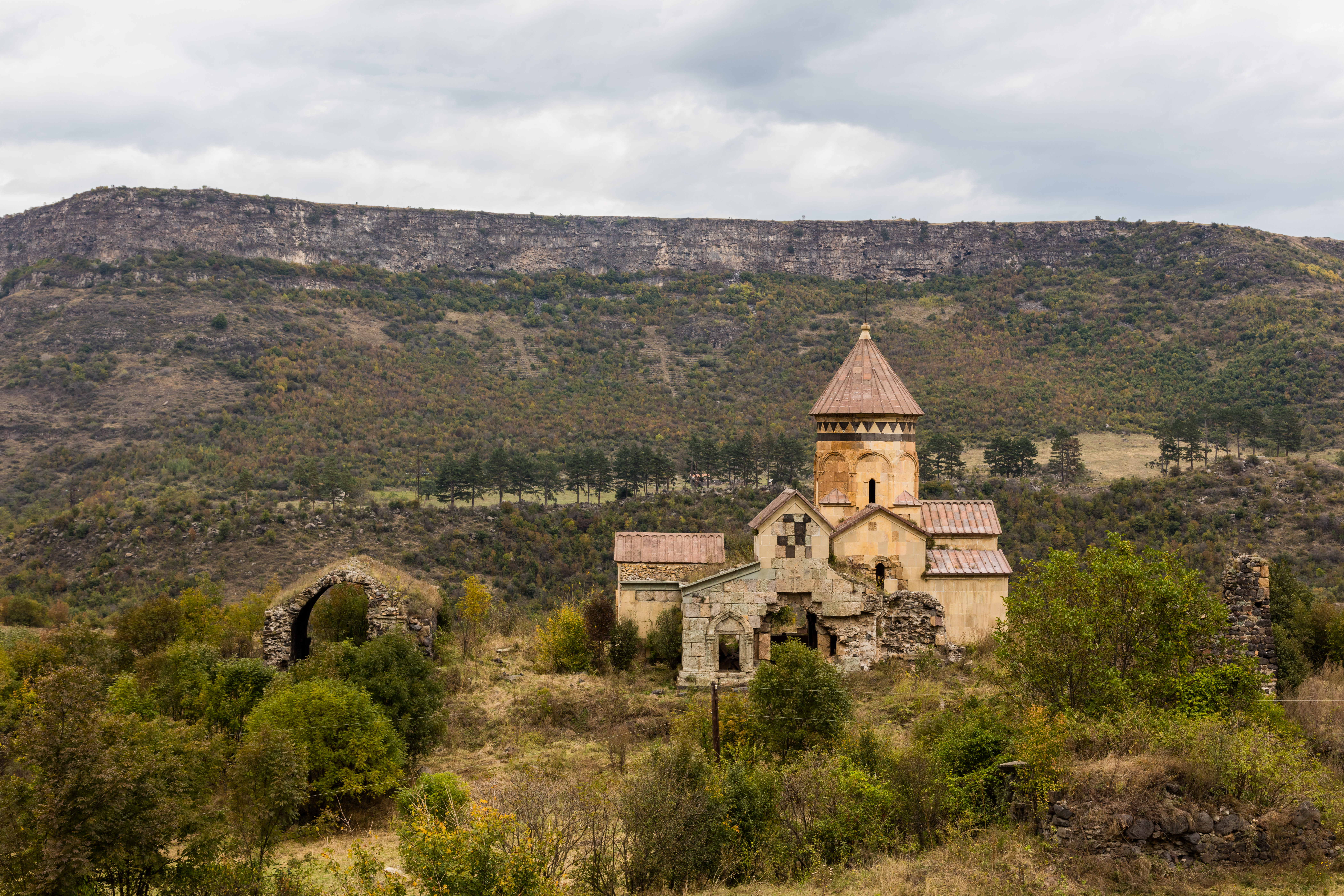 Hnevank Monastery, Armenia